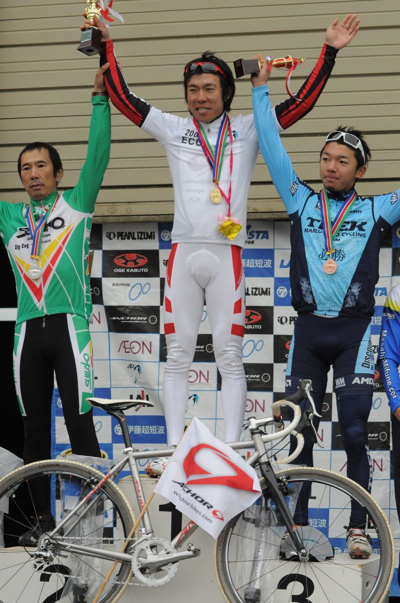 Male winners of the All Japan Cyclo-cross Championship 2009. Gold: Keiichi Tsujiura, Silver: Masanori Kosaka, Bronze: Yū Takenouchi.